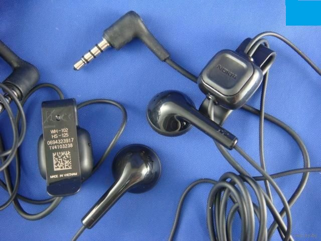 Daulet